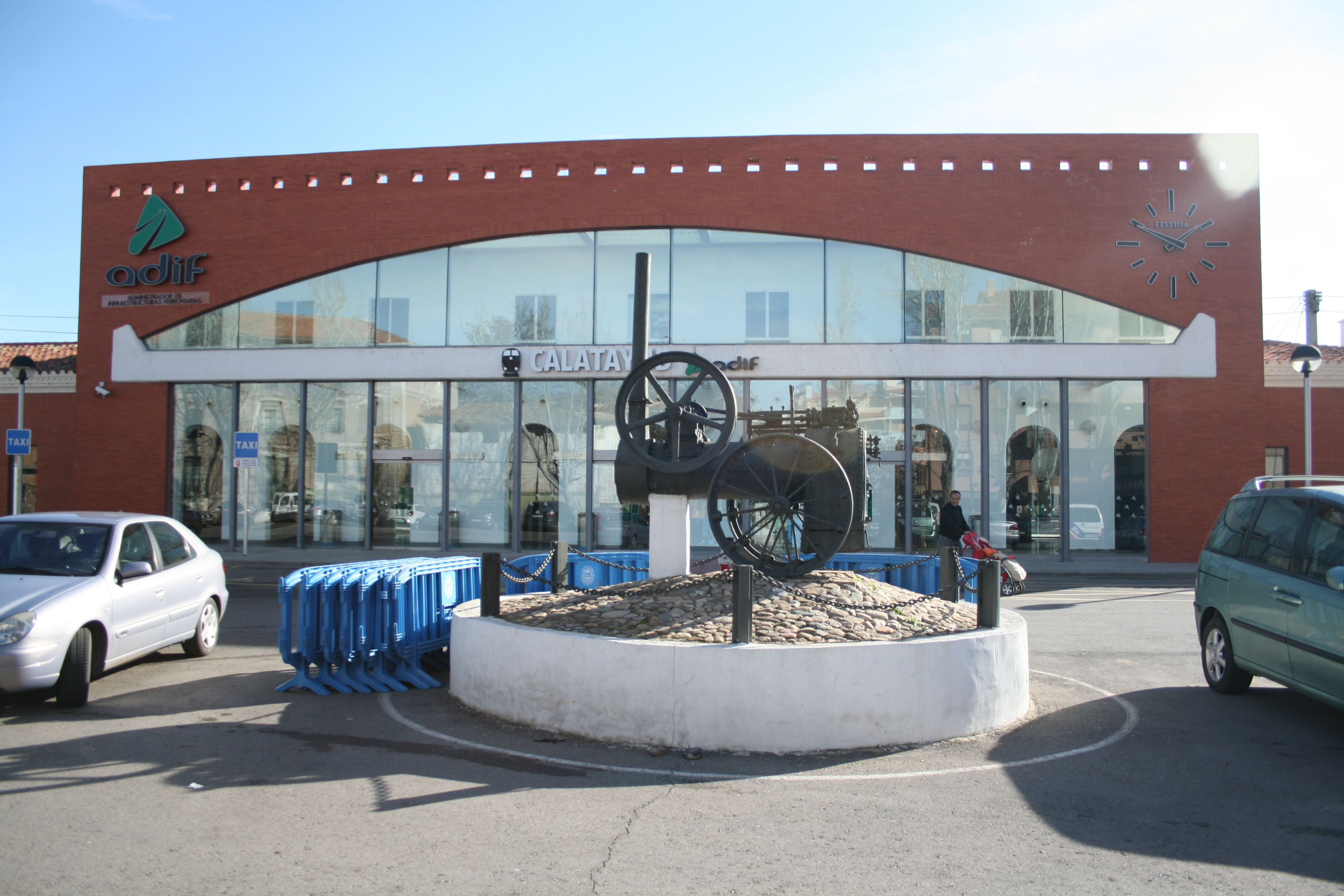 AVE train station of Adif, Calatayud, Spain